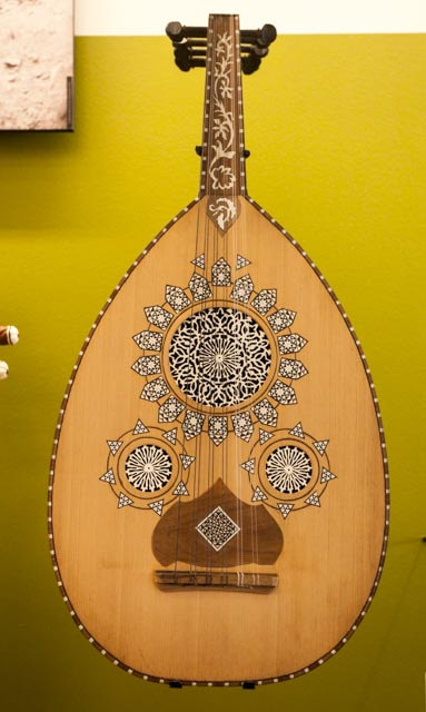 Oud - MIM PHX We read about the Musical Instrument Museum (MIM) on Trip Advisor - it was the top rated attraction in Phoenix - and now we can see why! The museum is dedicated to musical instruments from around the world - the collection is fascinating, the exhibits are great and the hands-on displays were fun. We spent almost 5 hours here and still felt rushed - this place is definitely worth a detour. I know nothing about musical instruments so if you happen to know what a particular instrument is, please feel free to comment on it. I tried to include as many labels as possible. The museum is in Phoenix, AZ - we visited it in March 2014.